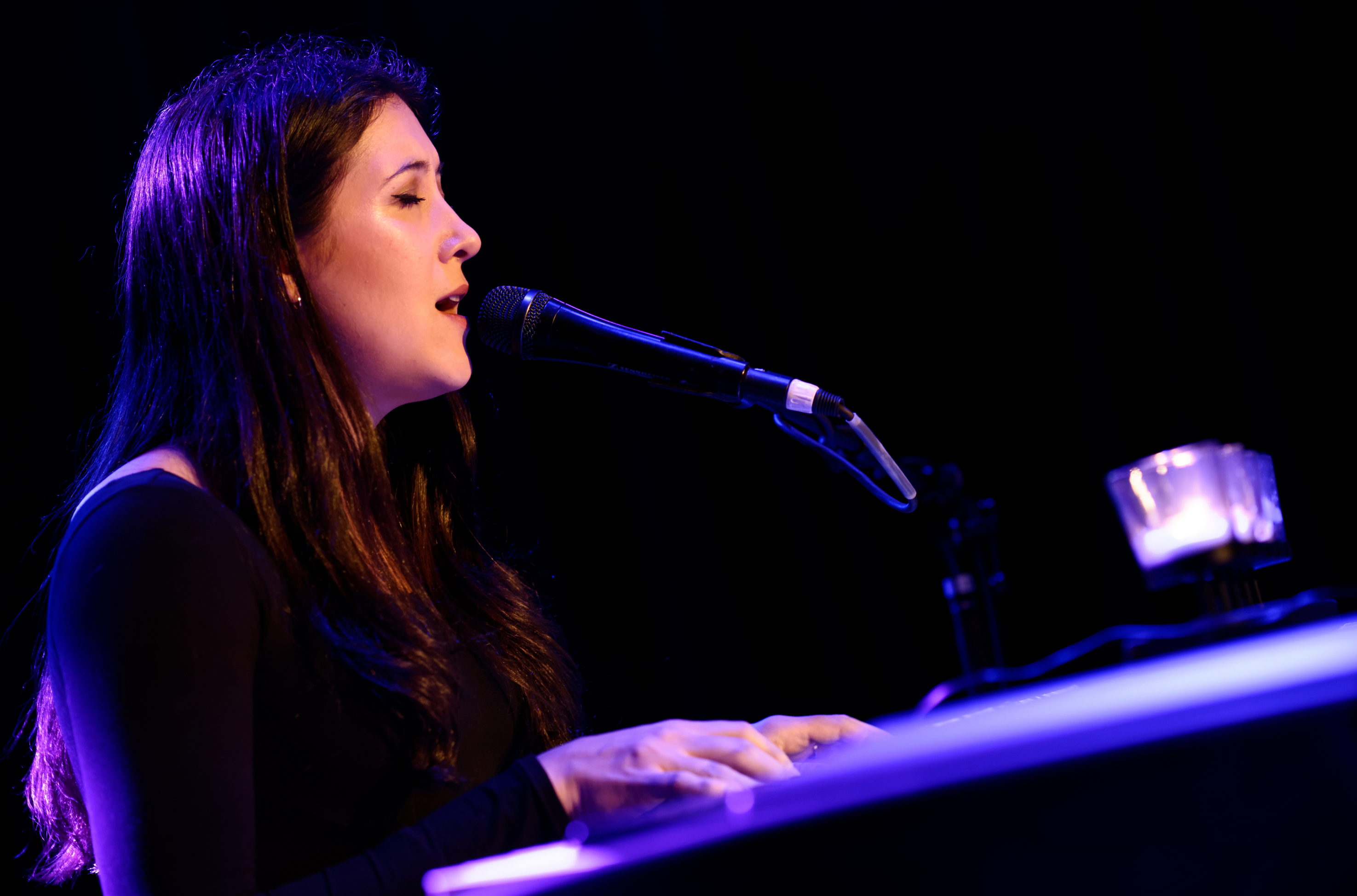 Vanessa Carlton (with Skye Steele) performing live at The Roxy Theatre in West Hollywood (Los Angeles) California on Thursday January 21st, 2016.